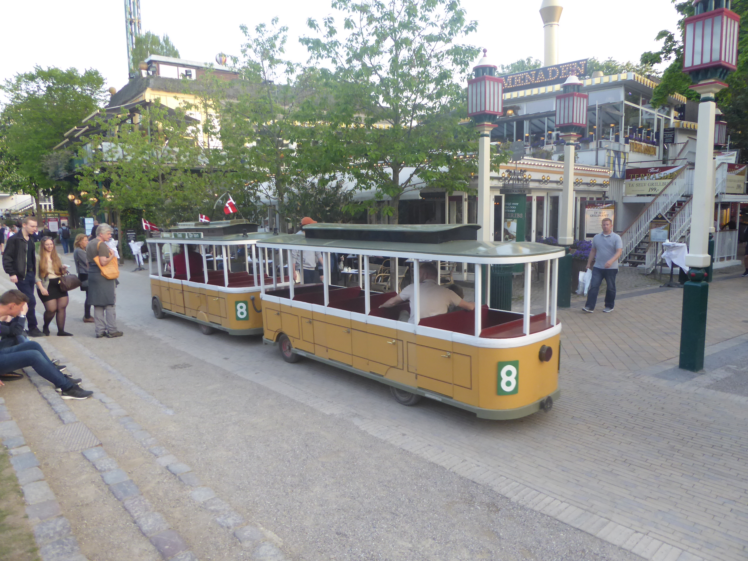 The "trams" on the ride Linie 8 in the amusement park Tivoli in Copenhagen.